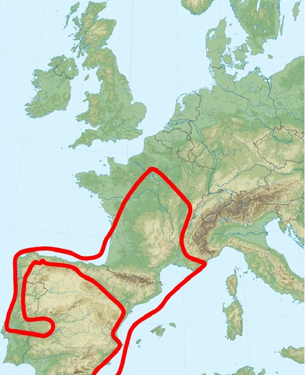 Location map of Badegoulian culture on Europe at last pleniglacial. It was in Upped Paleolithic period ca 23500-21000 cal BC. Orange line: Badegoulian sensu stricto extent. Dark red line: dense distribution of Badegoulian sites in Dordogne and nearby Yellow dots: possibly area of Badegoulian culture.